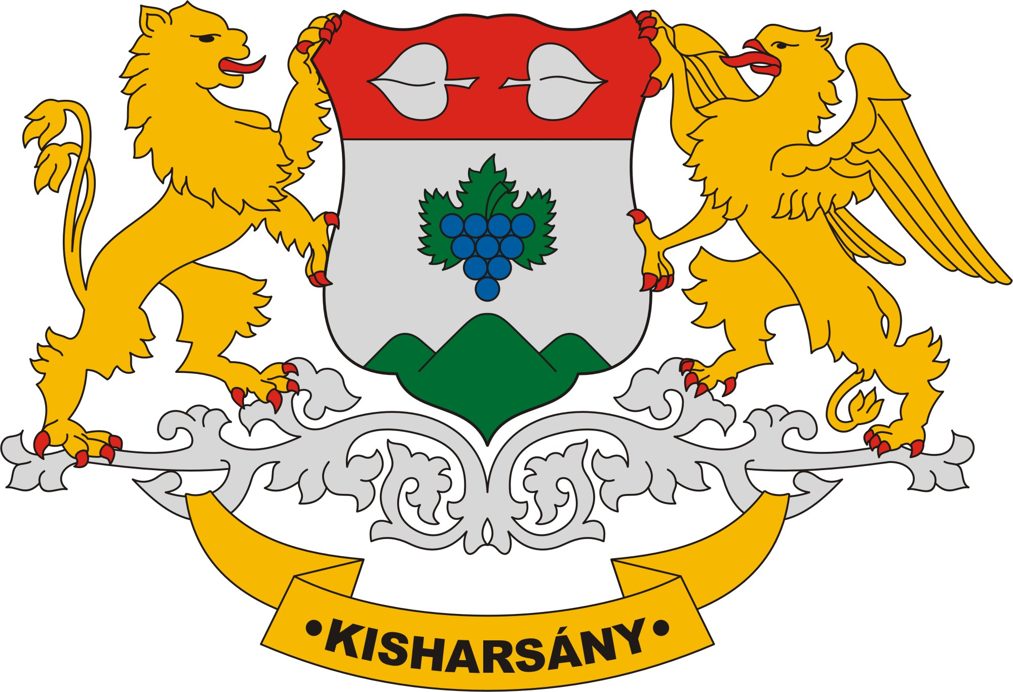 Coat of arms of Kisharsány, Hungary